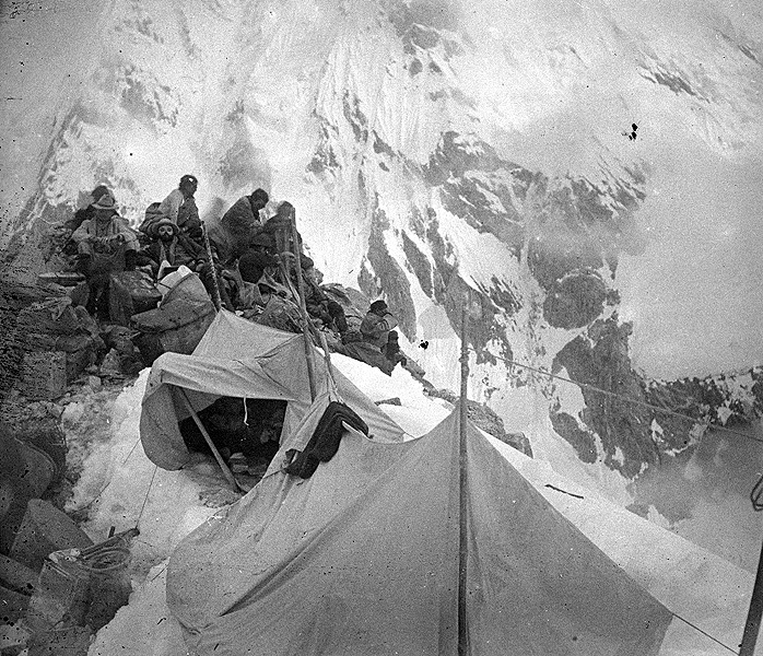 Camp IV at of 1905 Expedition to Kanchenjunga (6150 meters elevation).